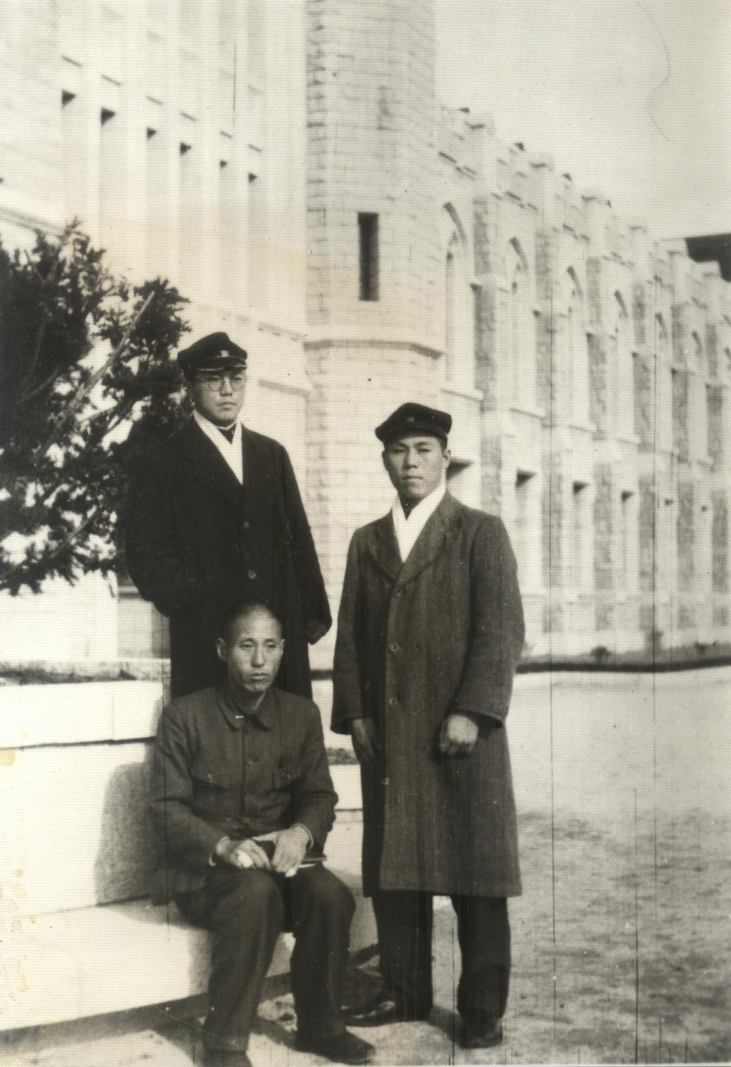 Lee Chul-seung and Boseong callege in 1940